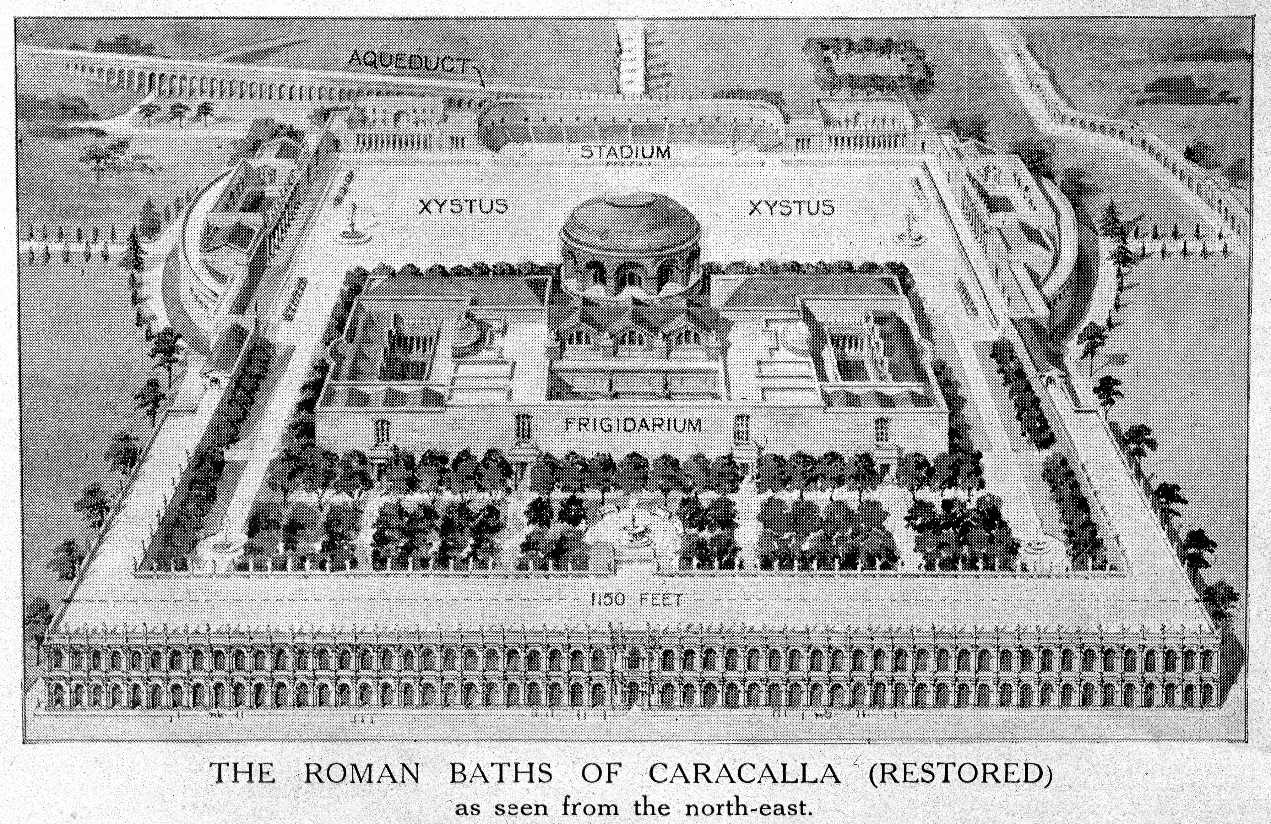 Baths of Cracalla, Rome, seen from N-E, restored. Reproduction from Sir Banister Fletchers book 'History of Arcchitecture on the comparative methods', 7th edition, 1924. Wellcome Images Keywords: caracalla; Rome; Italy; Baths